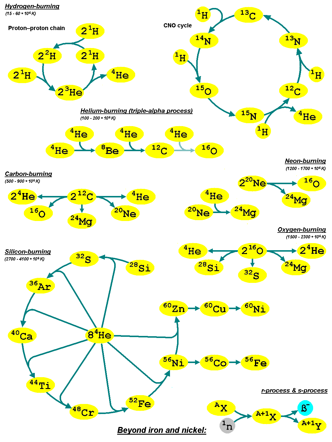 Creation of elements beyond carbon through carbon burning, neon burning, oxygen burning and silicon burning